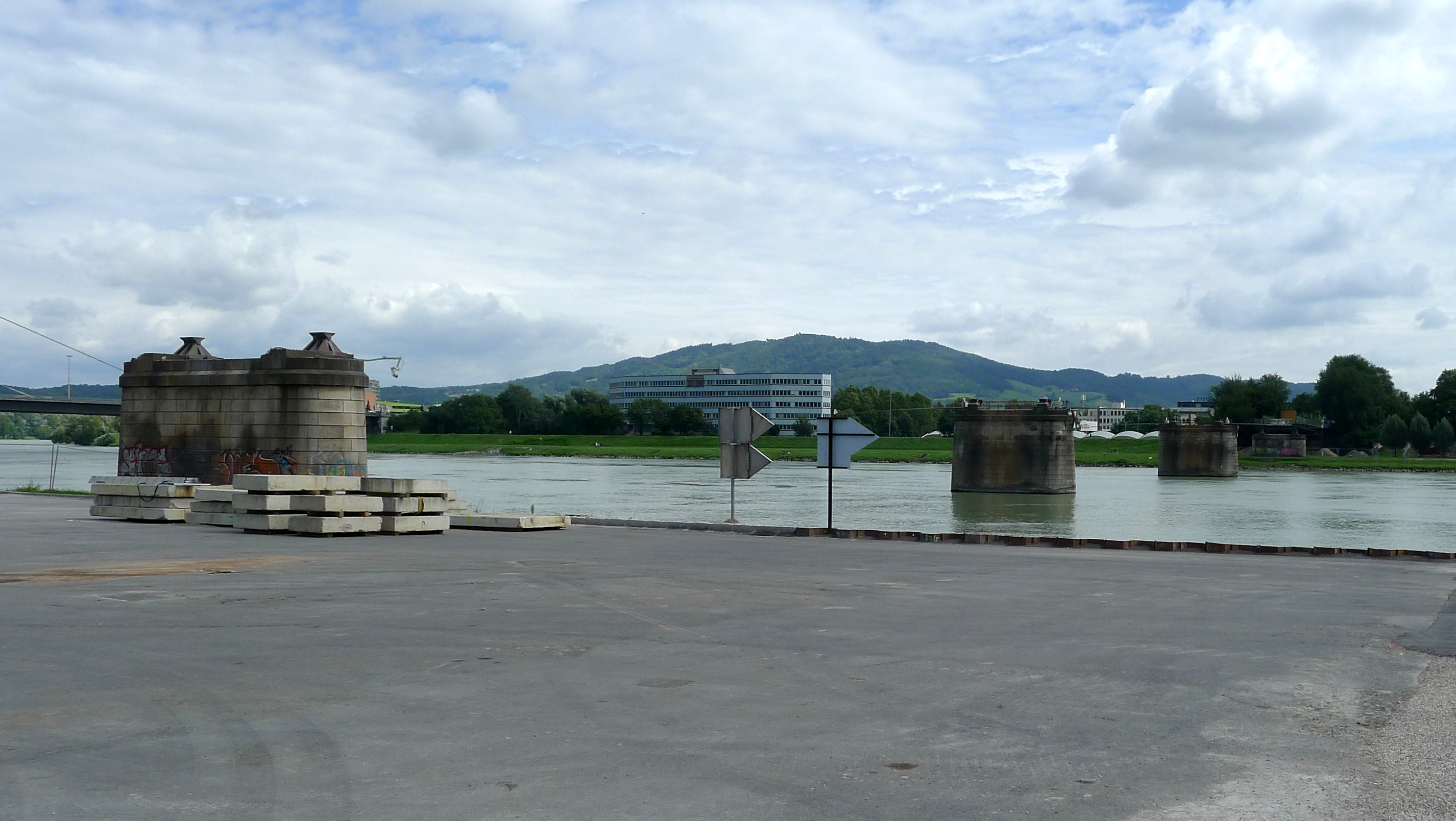 Demolition of Linz Railway Bridge - bridge basements